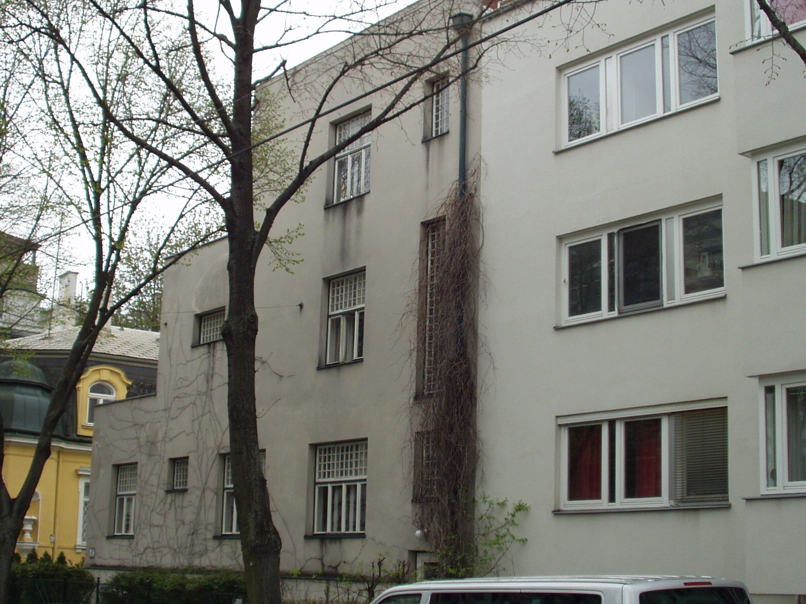 Haus Scheu Architect: Adolf Loos Year: 1912-1913 Vienna, Austria digital photograph taken by heardjoin